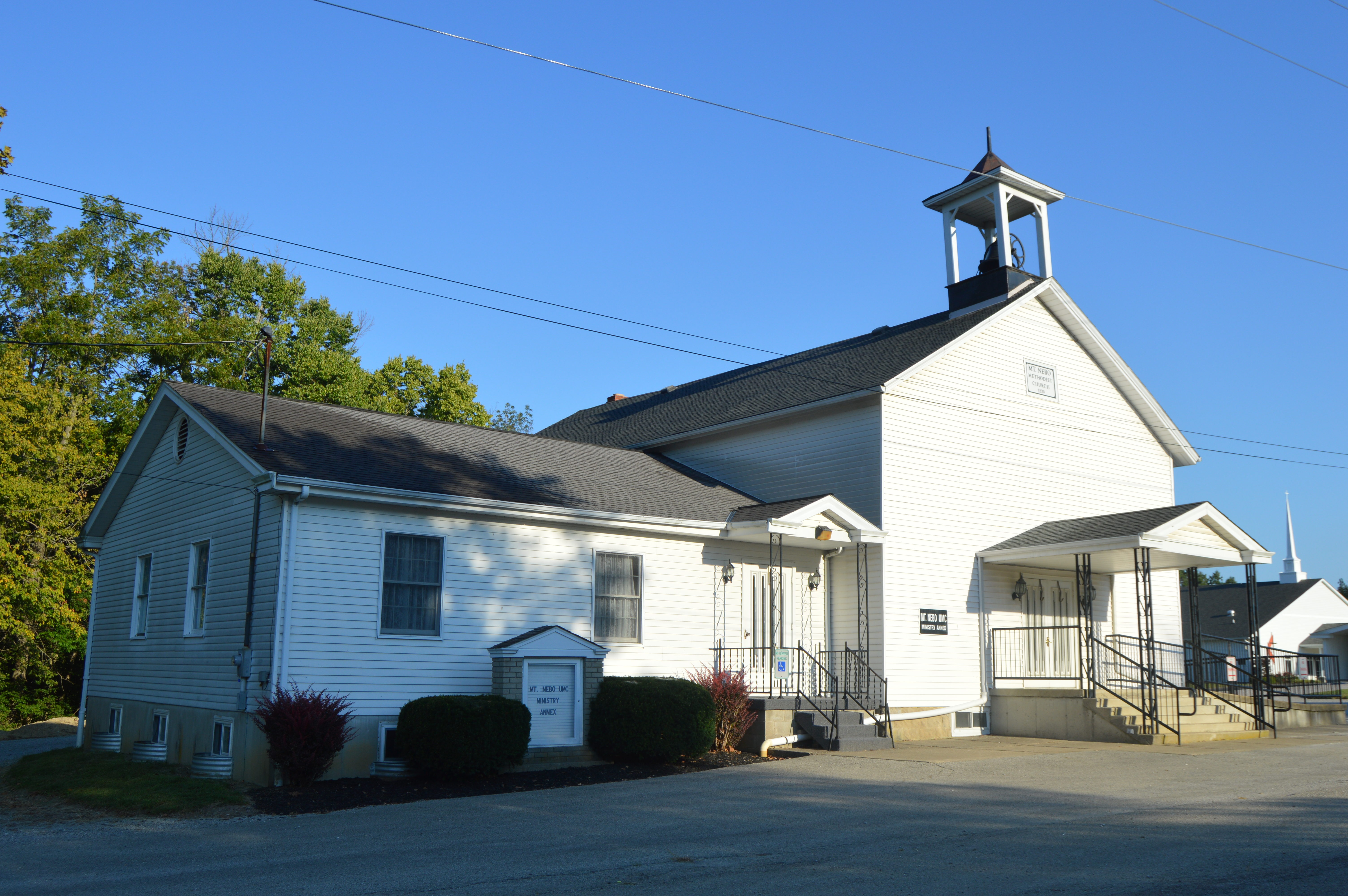 Front of the Mount Nebo United Methodist Church, located at 11693 State Route 774 east of Bethel in Clark Township, Brown County, Ohio, United States. The sanctuary section was built in 1835.